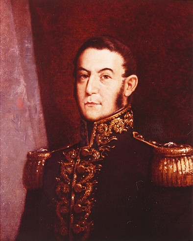 José de San Martín